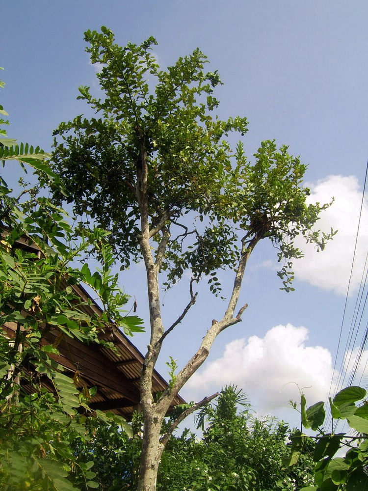 Makrut Lime tree.